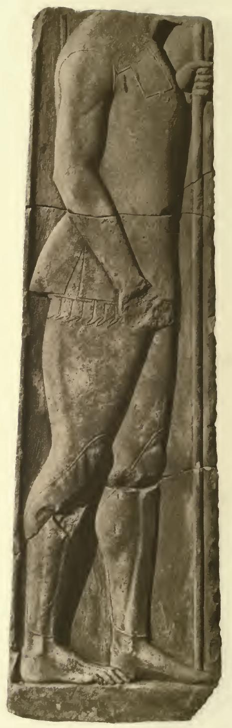 archaic warrior stele from Ikaria. Not to be mixed with Stele Aristionos